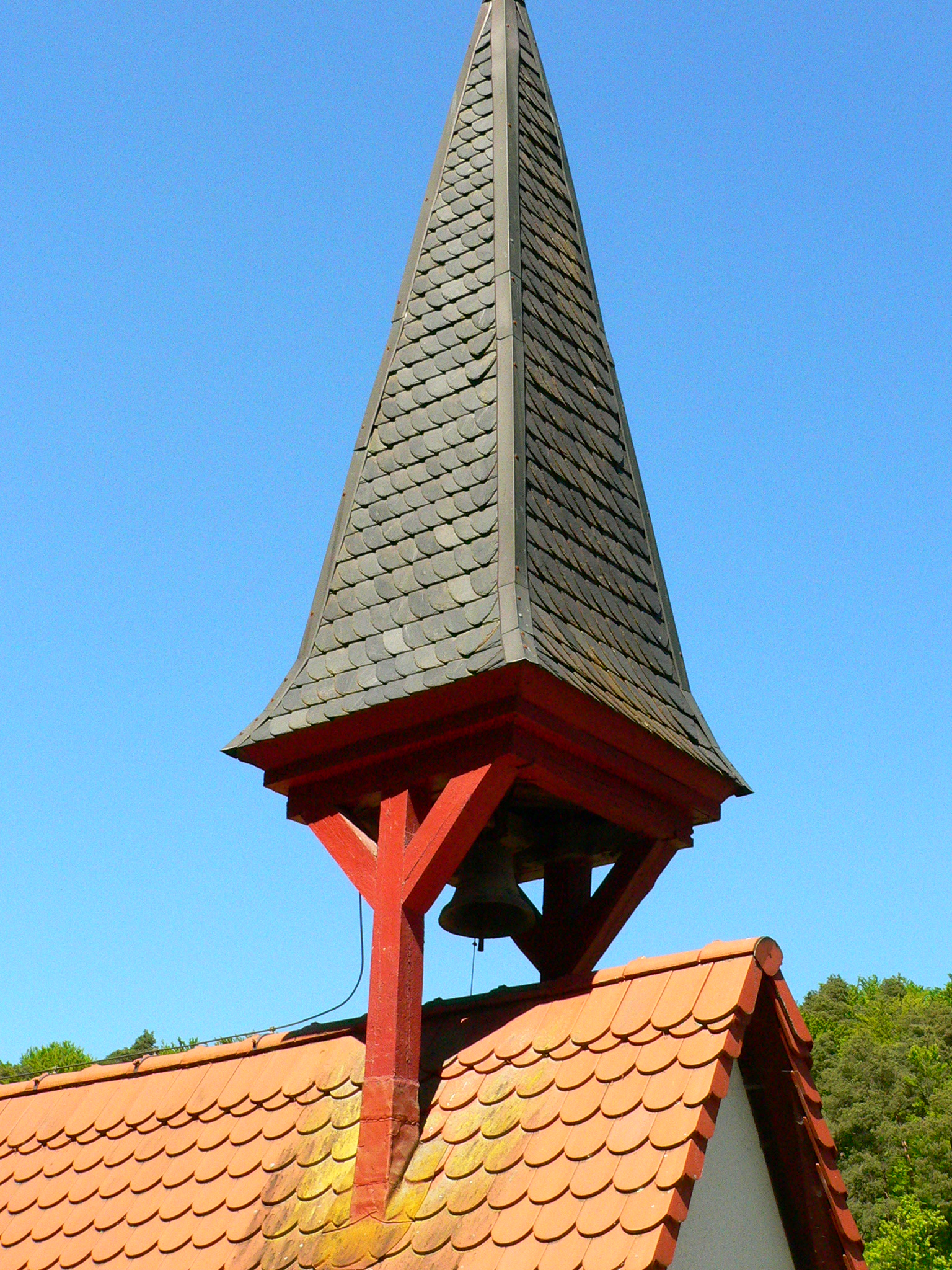 Tyrolean belfry